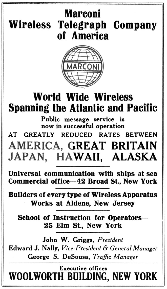 Advertisement for the Marconi Wireless Telegraph Company of America which appeared on page vi of the 1917 edition of "The Year-book of Wireless Telegraphy & Telephony